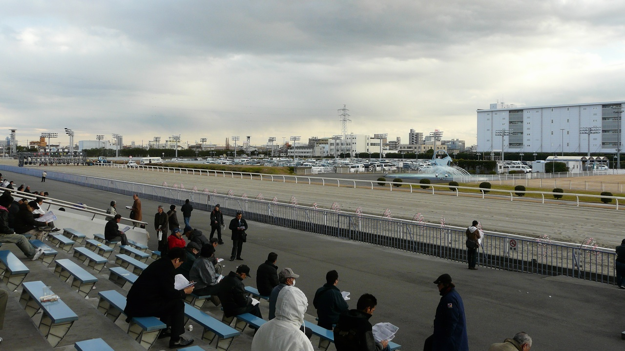 Kawasaki_Racecourse_007